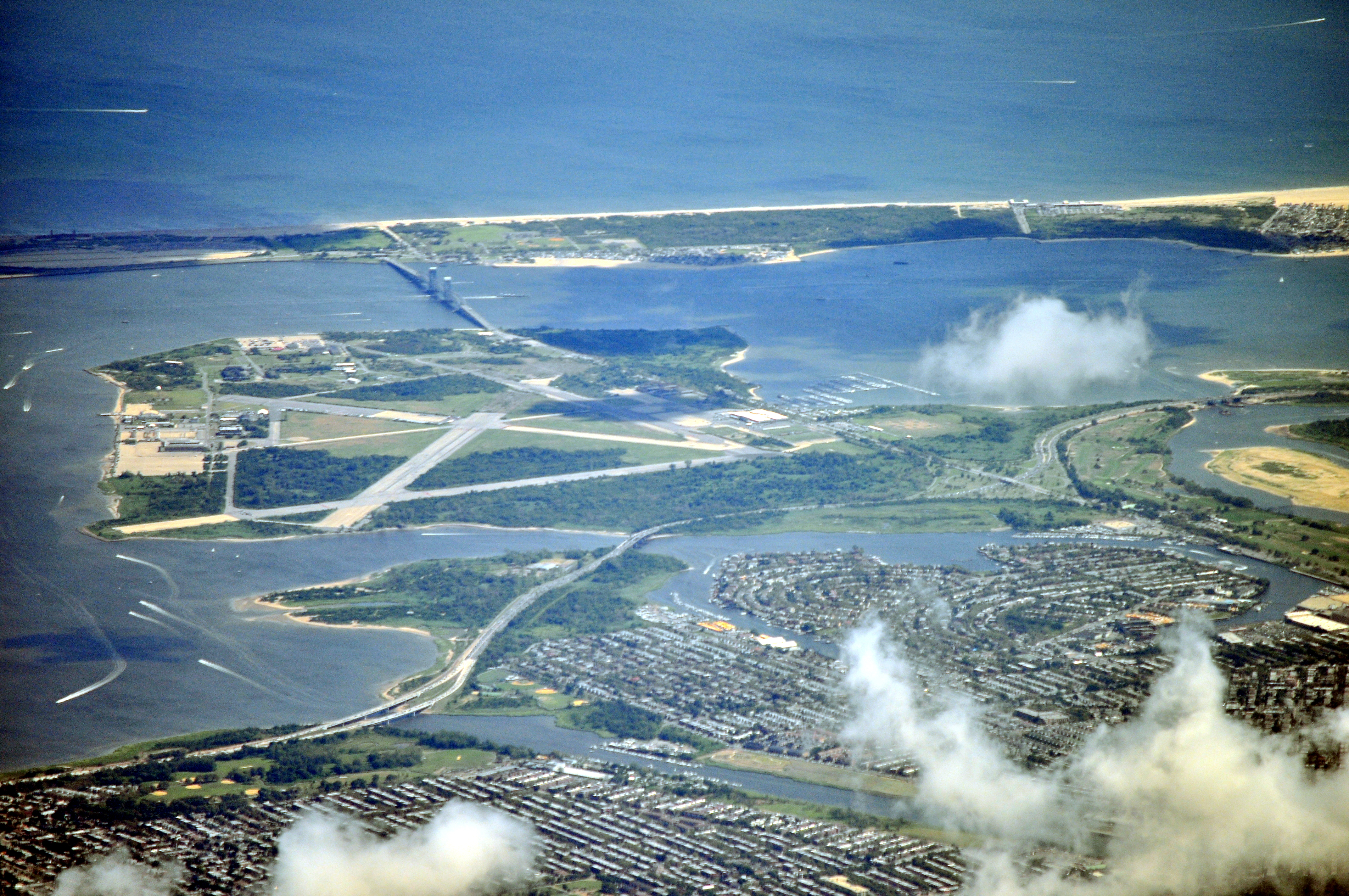 Aerial view of Floyd Bennett Field, New York.